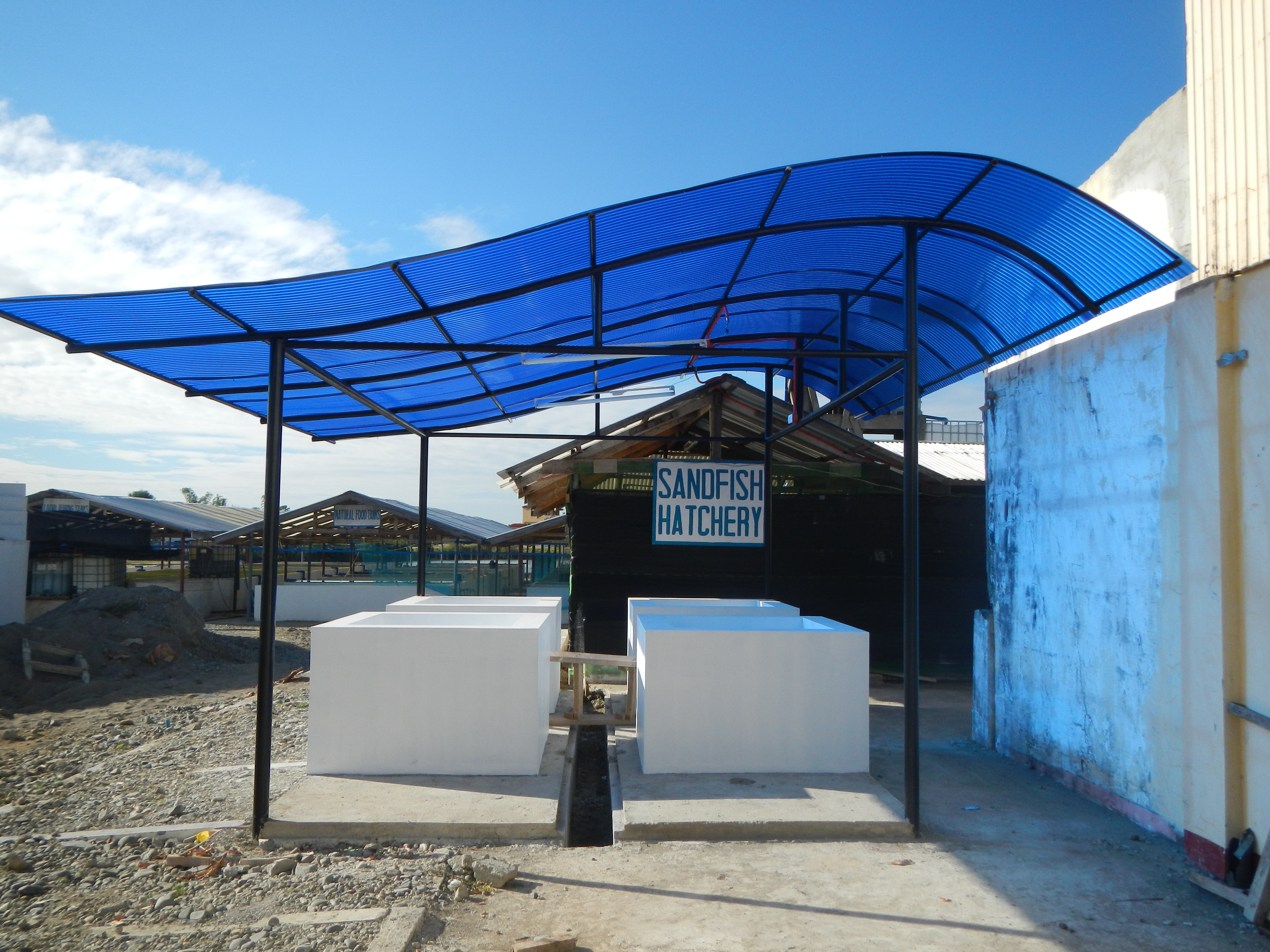 [1]Sea cucumber (food) Sandfish hatchery